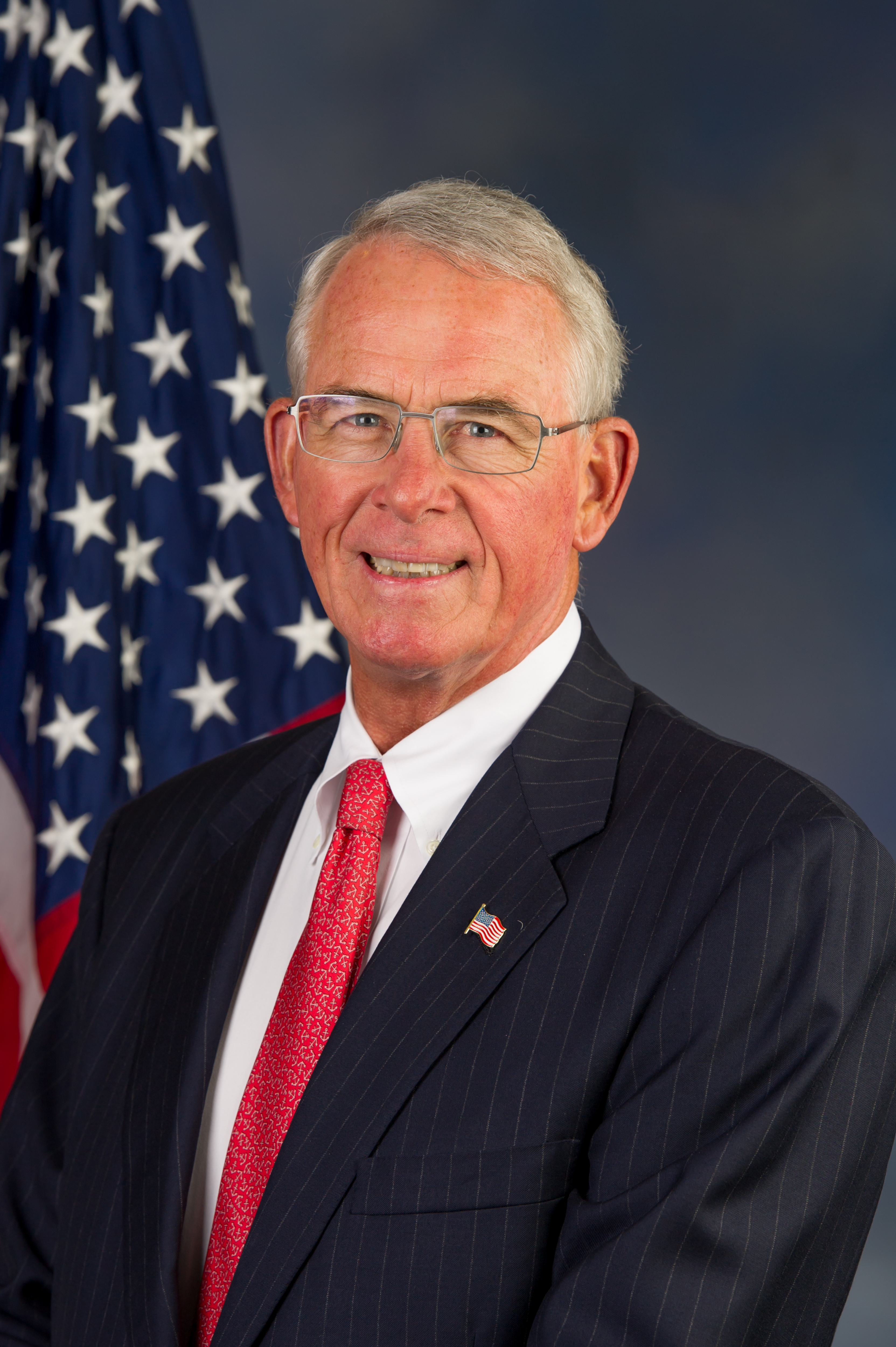 Francis Rooney official photo, 115th Congress